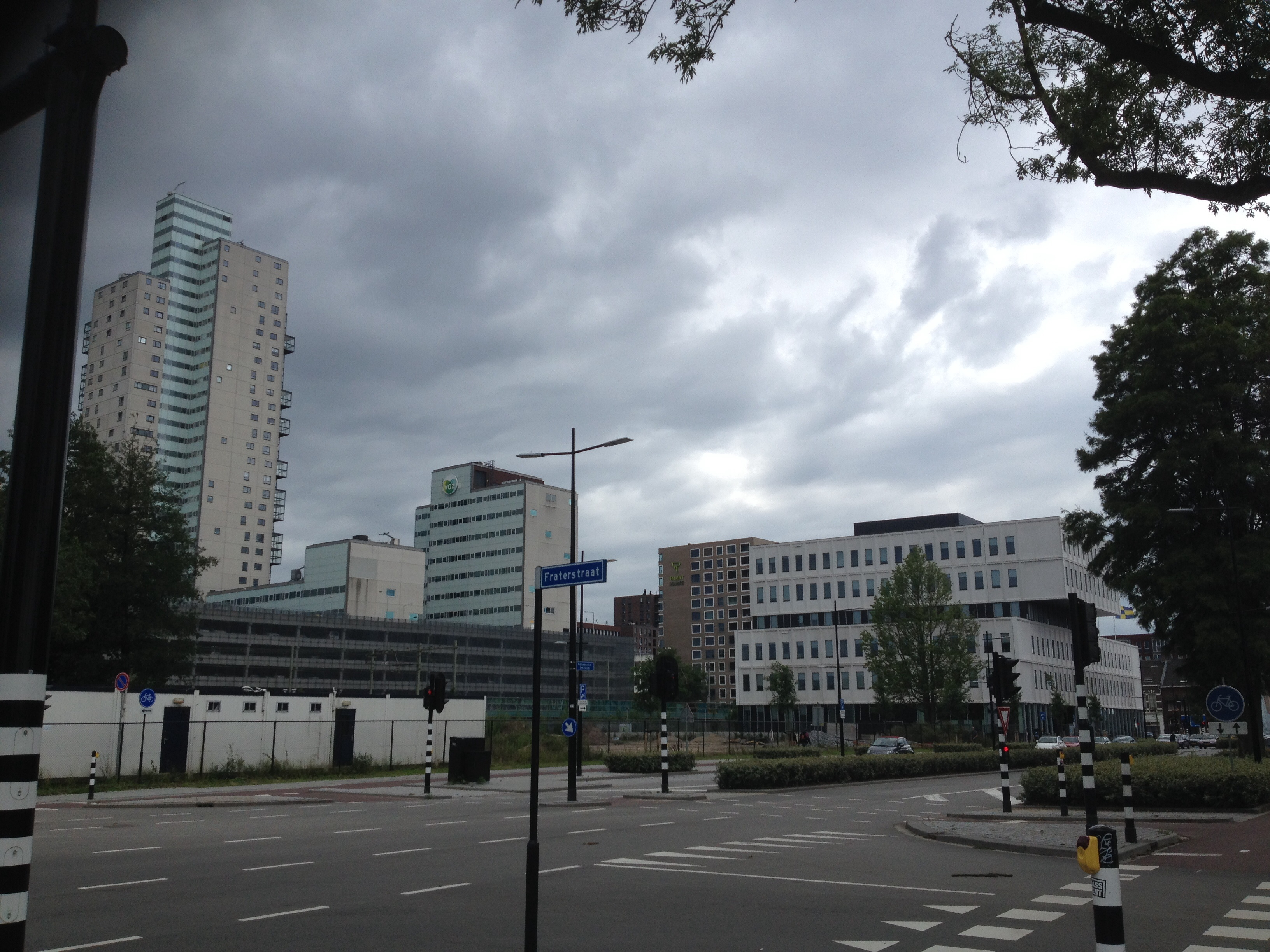 Het Zwijssenterrein in de Tilburgse Spoorzone.